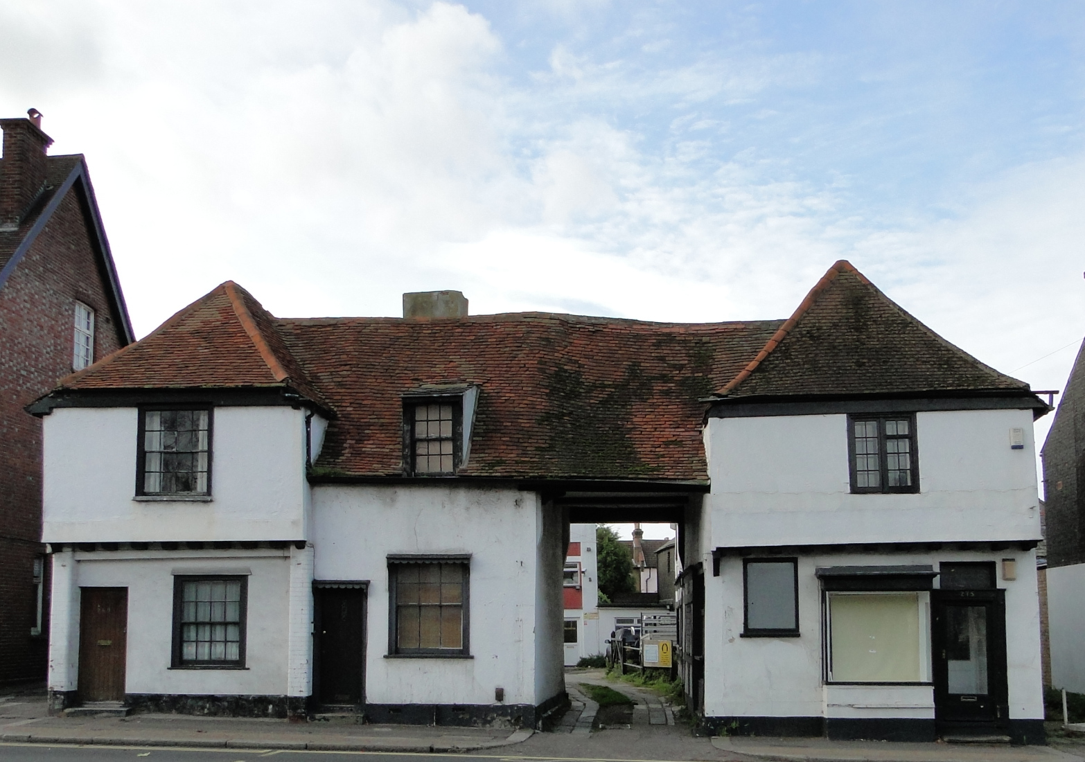 16th century wood framed house, Prittlewell, Essex